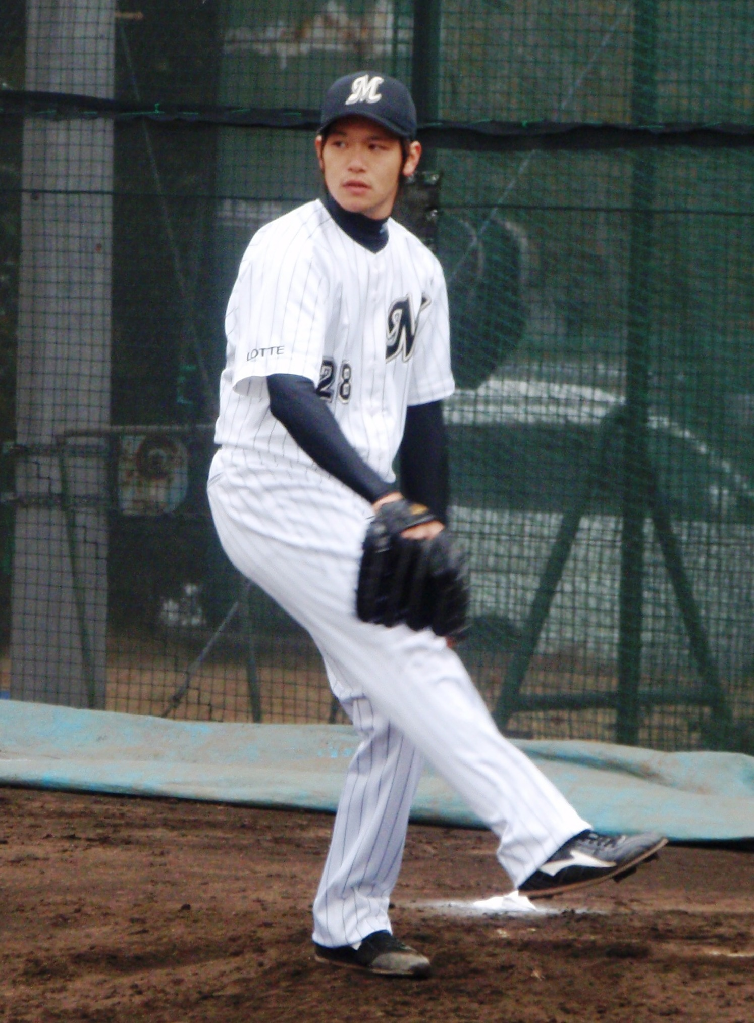 Tomohisa Nemoto, pitcher of the Chiba Lotte Marines, at Lotte Urawa Baseball Ground.